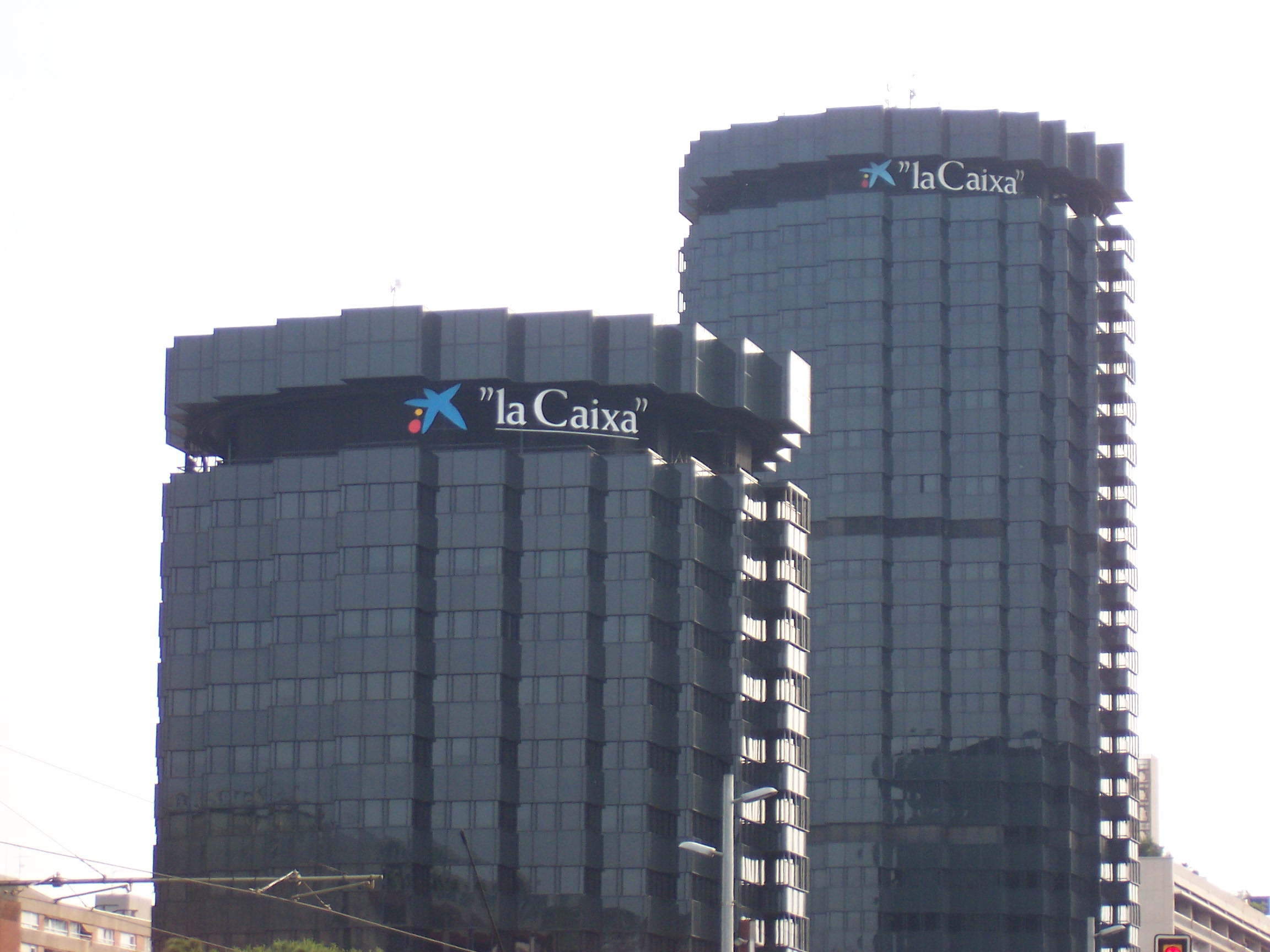 "La Caixa" towers, on Diagonal Avenue, in Barcelona.